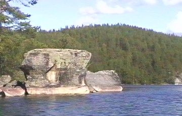 Rocks in the Kolovesi National Park, Southern Savonia, Finland